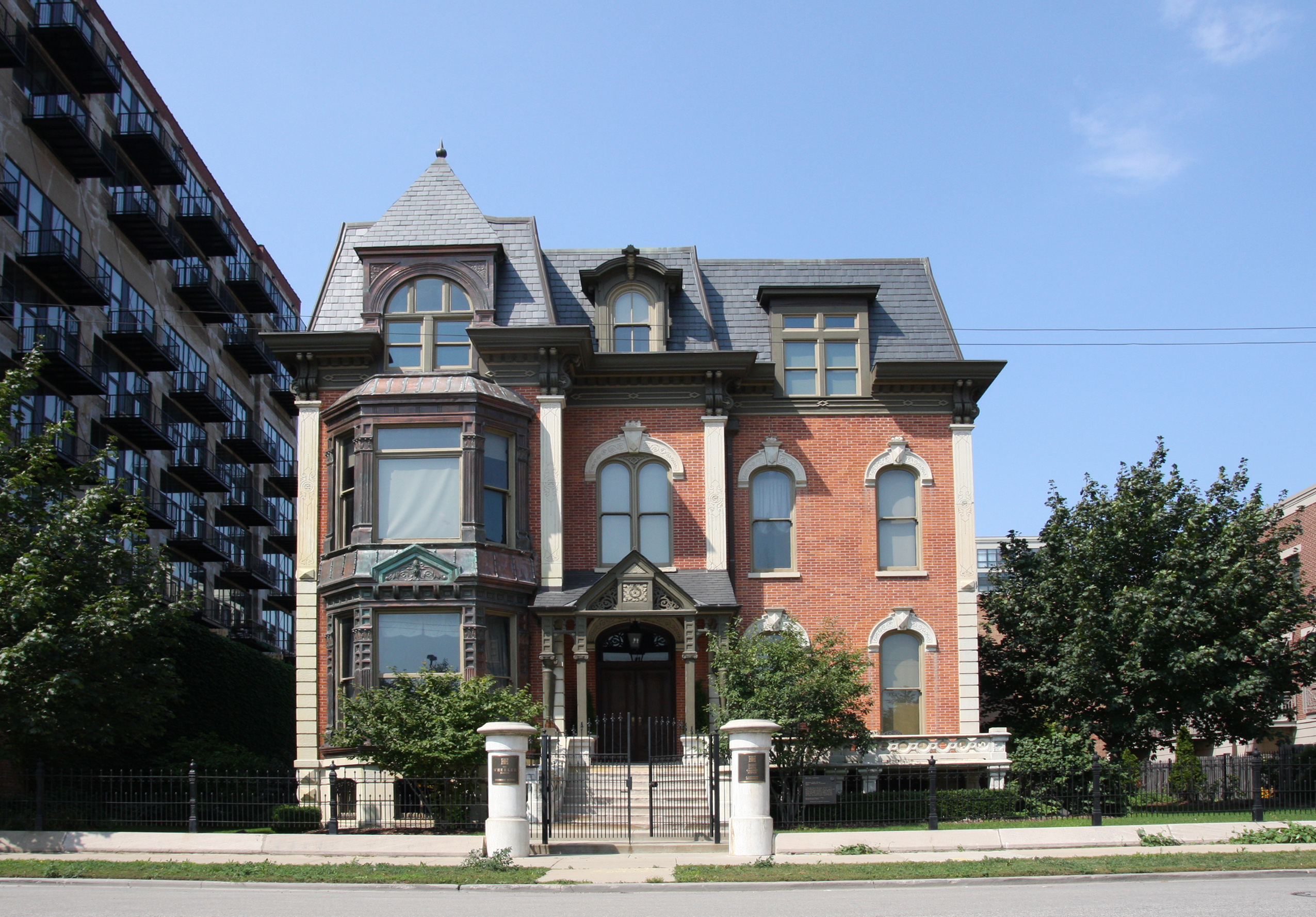 Wheeler-Kohn House Otis L Wheelock, architect 1870 A rare survivor of the stately mansions built on the Near South Side prior to the Great Chicago Fire of 1871, this also ranks as one of the city's best examples of Second Empire architecture. Built by banker Calvin Wheeler, it was remodeled in the 1880's by clothier Joseph Kohn, who added the window bay and elaborate front proch in order to compete with the newer mansions on nearby Prairie Avenue. Designated a Chicago Landmark 2/5/98 by Hizzoner